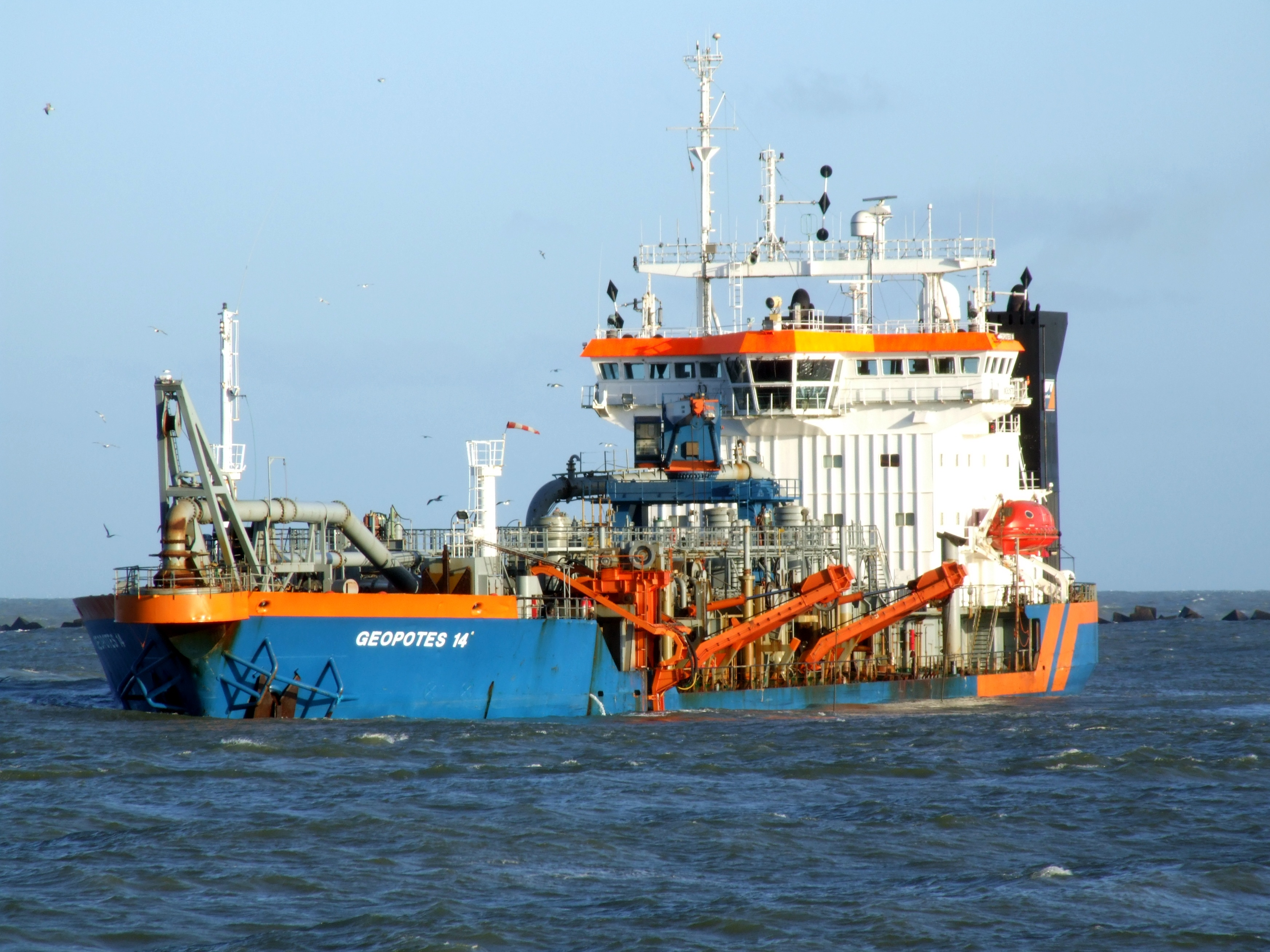 Geopotes 14 - IMO 8316780